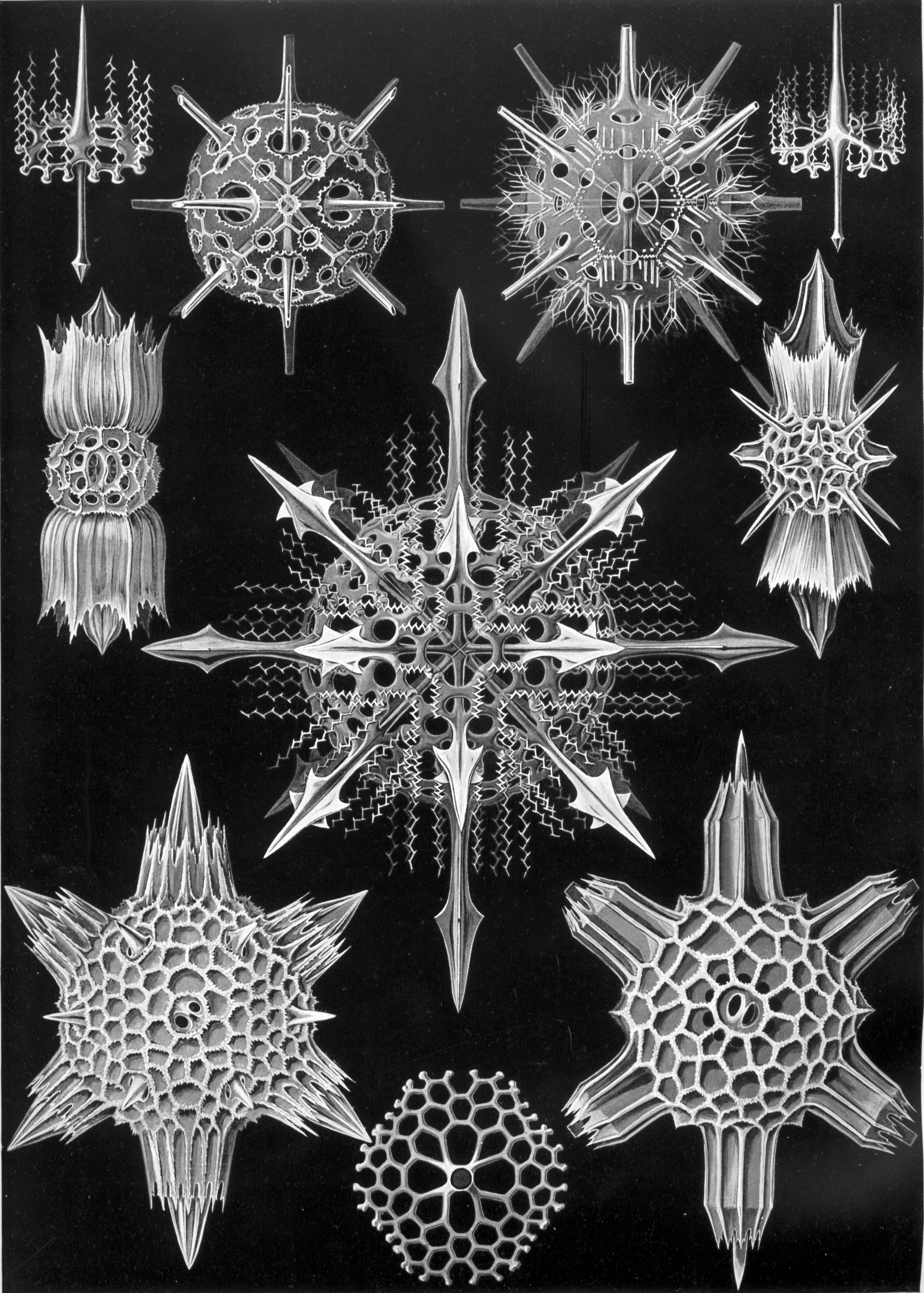 See here for index to numbers. Dorataspis typica (Haeckel) = Dorataspidae sp.? Diporaspis nephrophora (Haeckel) = Pleuraspis sp.? Lychnaspis miranda (Haeckel) = Dorataspidae sp.? Lychnaspis polyancistra (Haeckel) = Lychnaspis polyancistra (Haeckel, 1860), spicule Echinaspis echinoides (Haeckel) = Lychnaspis?, spicule Diplocolpus costatatus (Haeckel) = Diploconidae sp.? Diploconus hexaphyllus (Haeckel) = Diploconus hexaphyllus Haeckel, 1887 Icosaspis elegans (Haeckel) = Icosaspis elegans Haeckel, 1881, shell plate Hexaconus serratus (Haeckel) = Hexaconus serratus Haeckel, 1887 Hexacolpus nivalis (Haeckel) = Hexaconus nivalis (Haeckel, 1887)